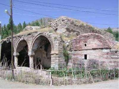 Varagavank Monastery 2005